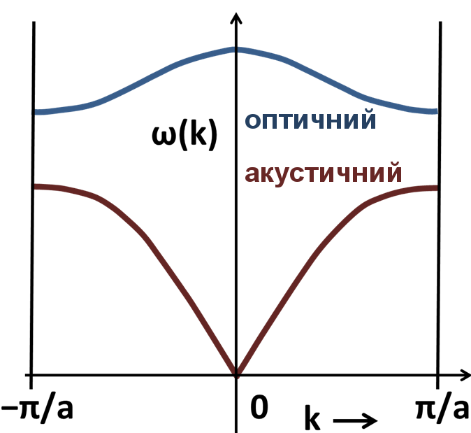 Acoustic and optical phonons for a diatomic linear chain (in Ukrainian).